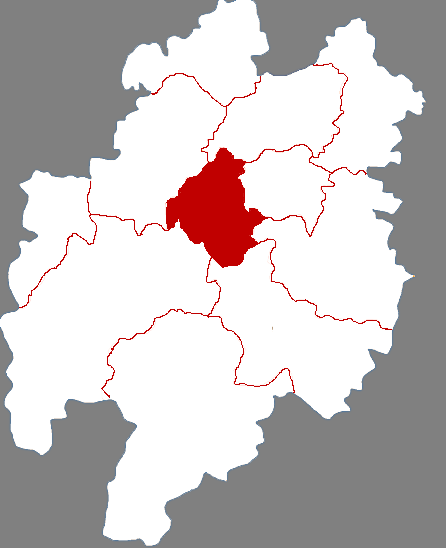 Location of Shawan District in Leshan City, China